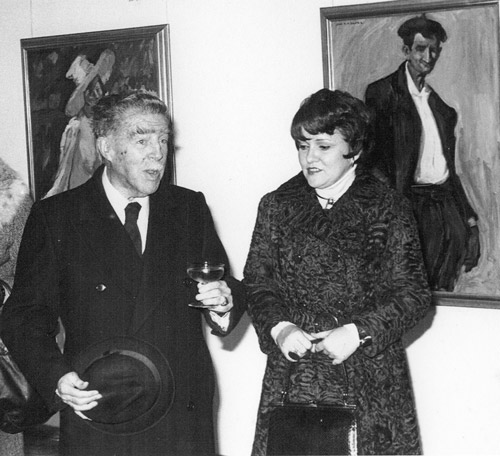 Juan Contreras y López de Ayala (Marques de Lozoya) Director of the "Real Academia de Bellas Artes "San Fernardo" Madrid, Spain